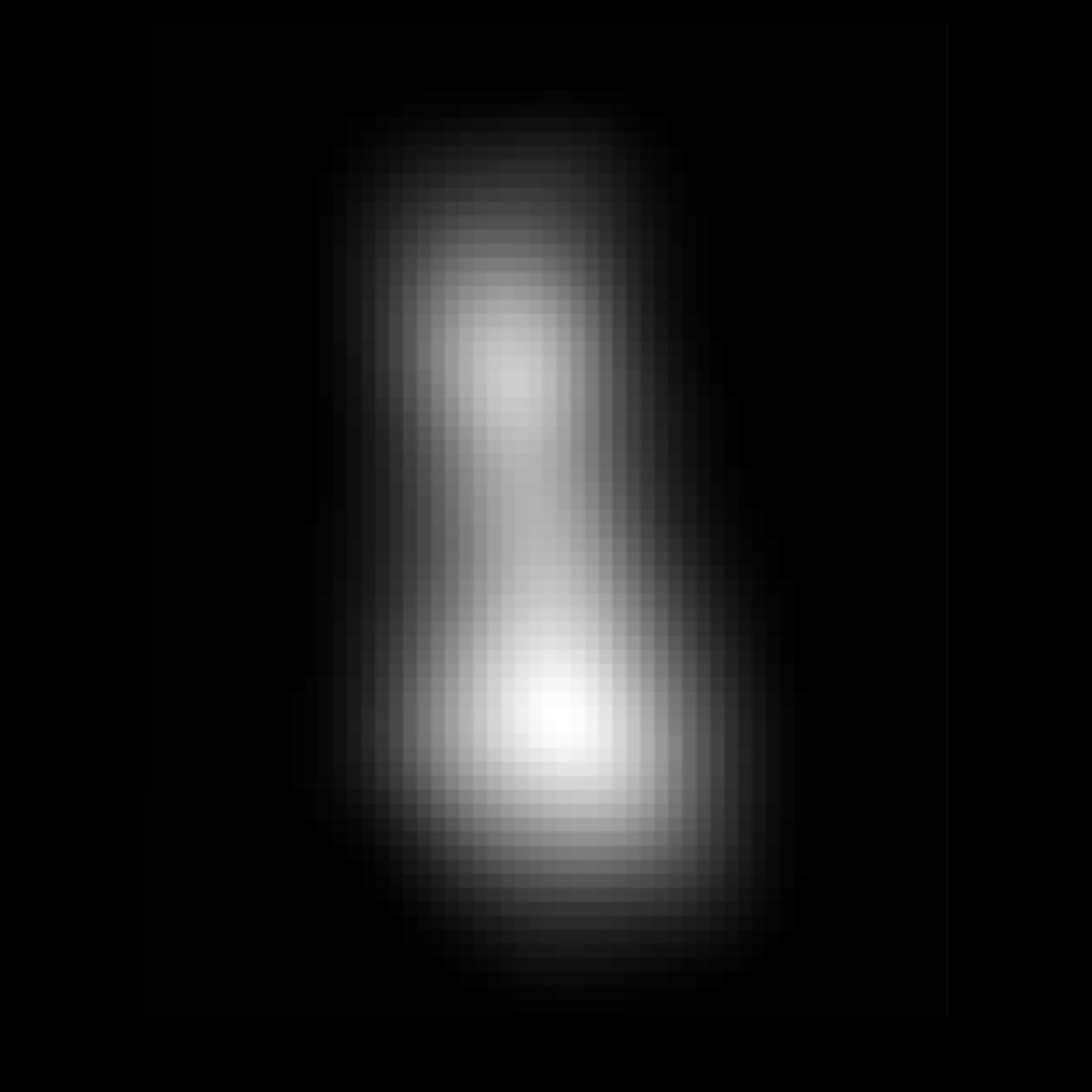 A composite of two images taken by New Horizons' high-resolution Long-Range Reconnaissance Imager (LORRI), which provides the best indication of Ultima Thule's size and shape so far. Preliminary measurements of this Kuiper Belt object suggest it is approximately 20 miles long by 10 miles wide (32 kilometers by 16 kilometers).